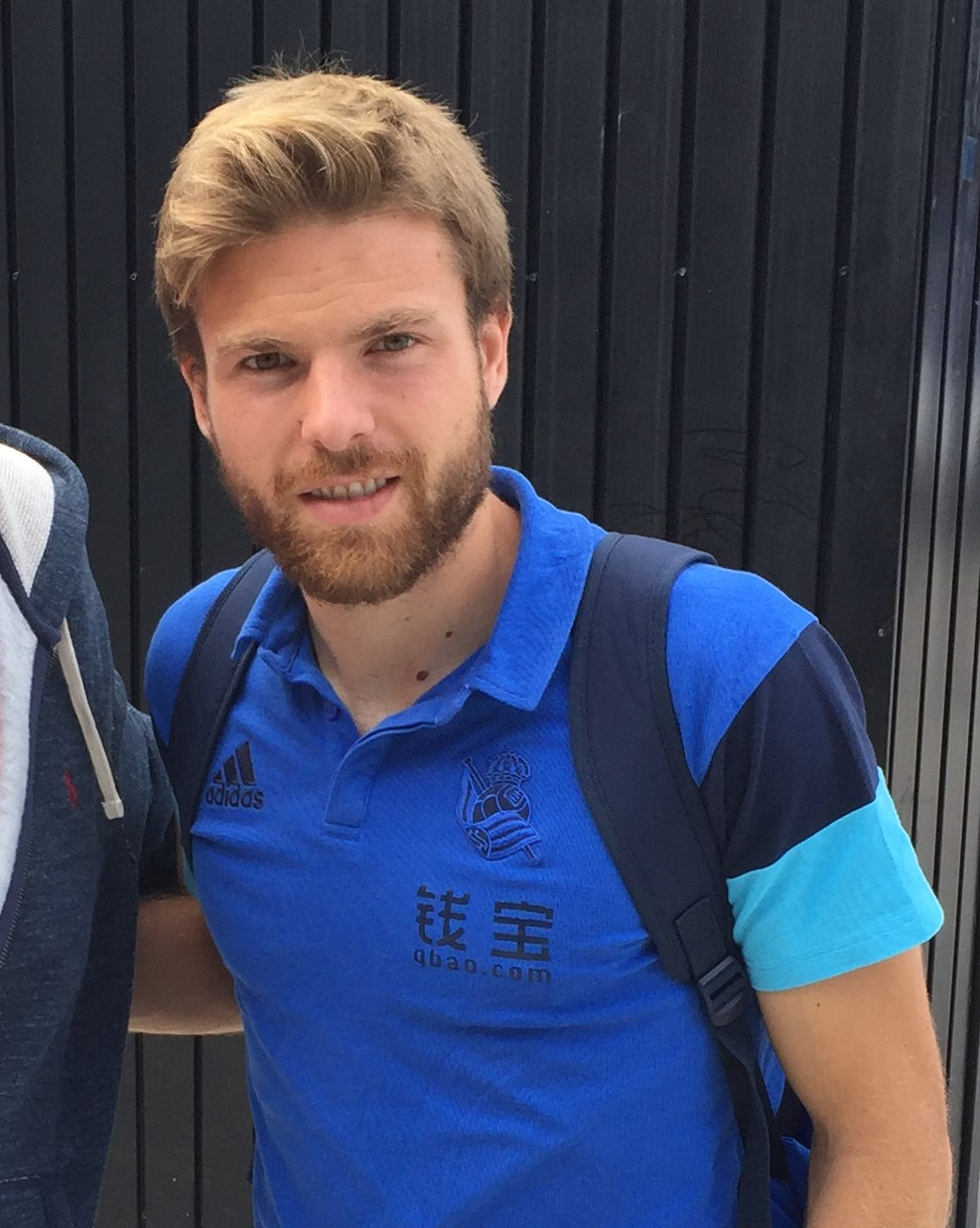 Illaramendi during a friendly pre-match against Sporting Gijon